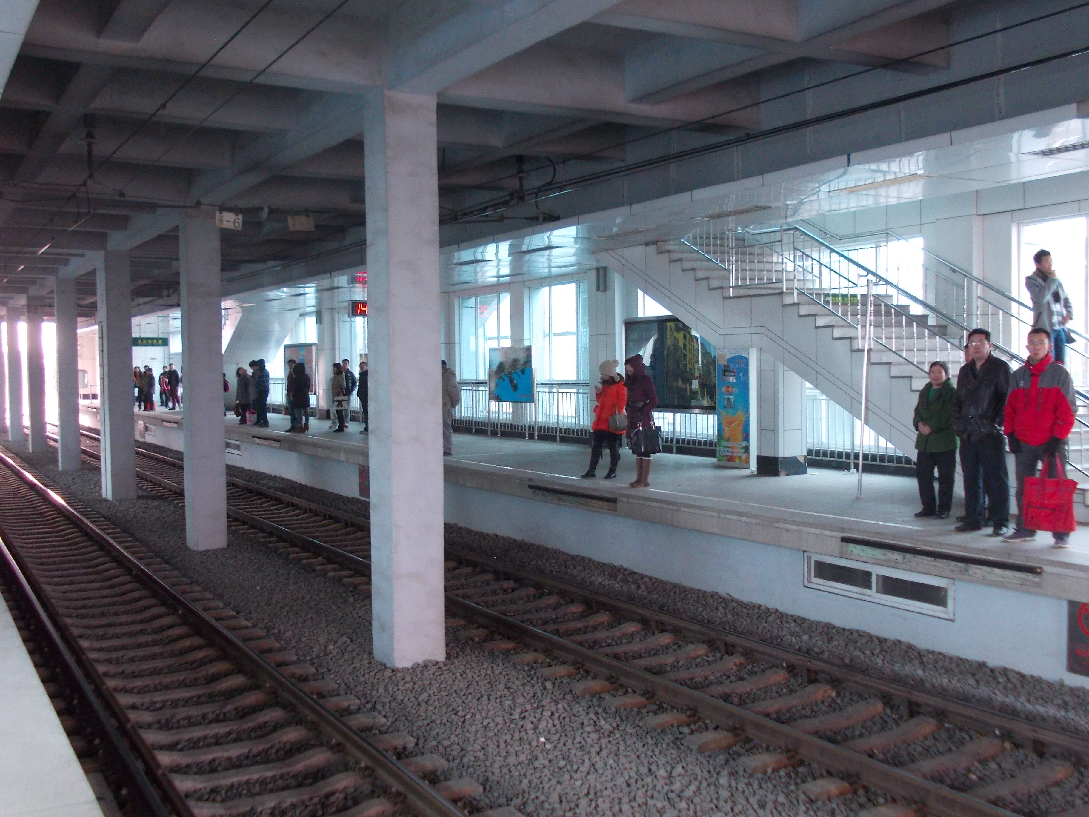 Dalian Metro, Baoshuiqu Station, Platform